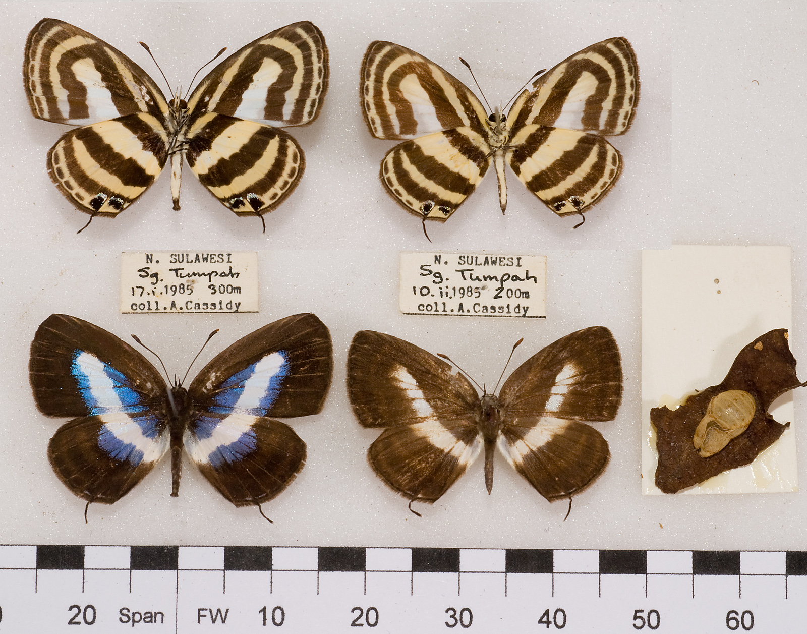 Discolampa ilissus, male, female, set specimens, Sulawesi, Alan Cassidy photo.